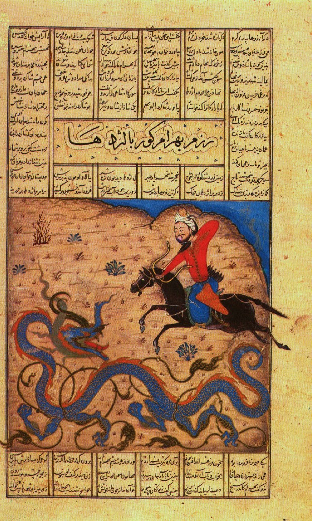 Bahram Gur's Combat with the Dragon. Firdawsi's Shah-nama. Shiraz. Topkapı, Folio 206, verso of Hazine 1511 according to [1] ([2] says Hazine 1151)